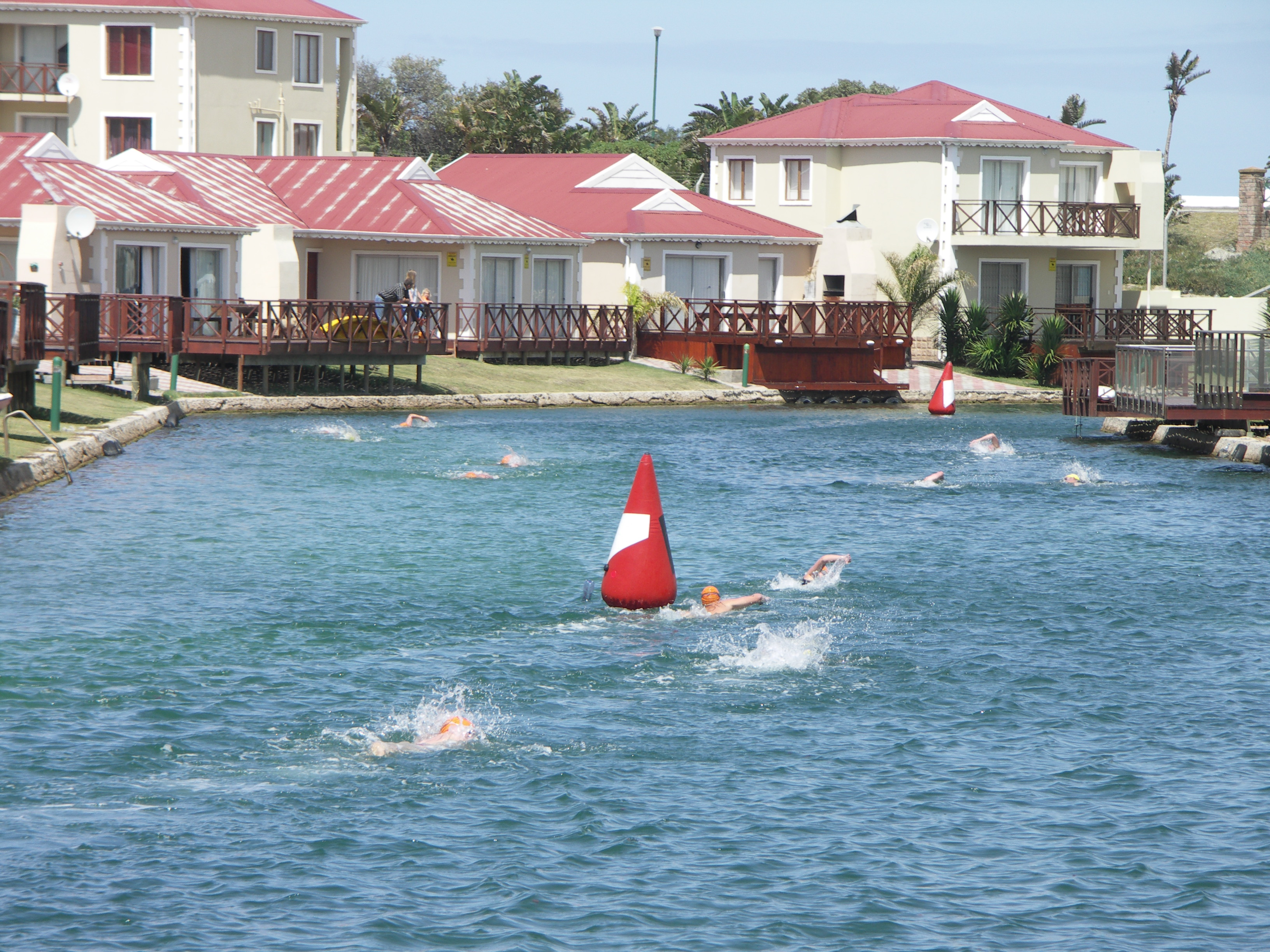 Eastern Province Aquatics Open Water event at Marina Martinique, Aston Bay, Eastern Cape, South Africa